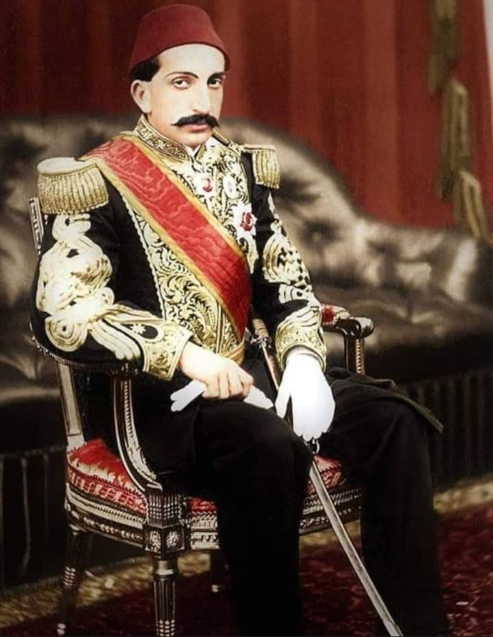 Shahzade Abdulhamid in Balmoral Castle in 1867.